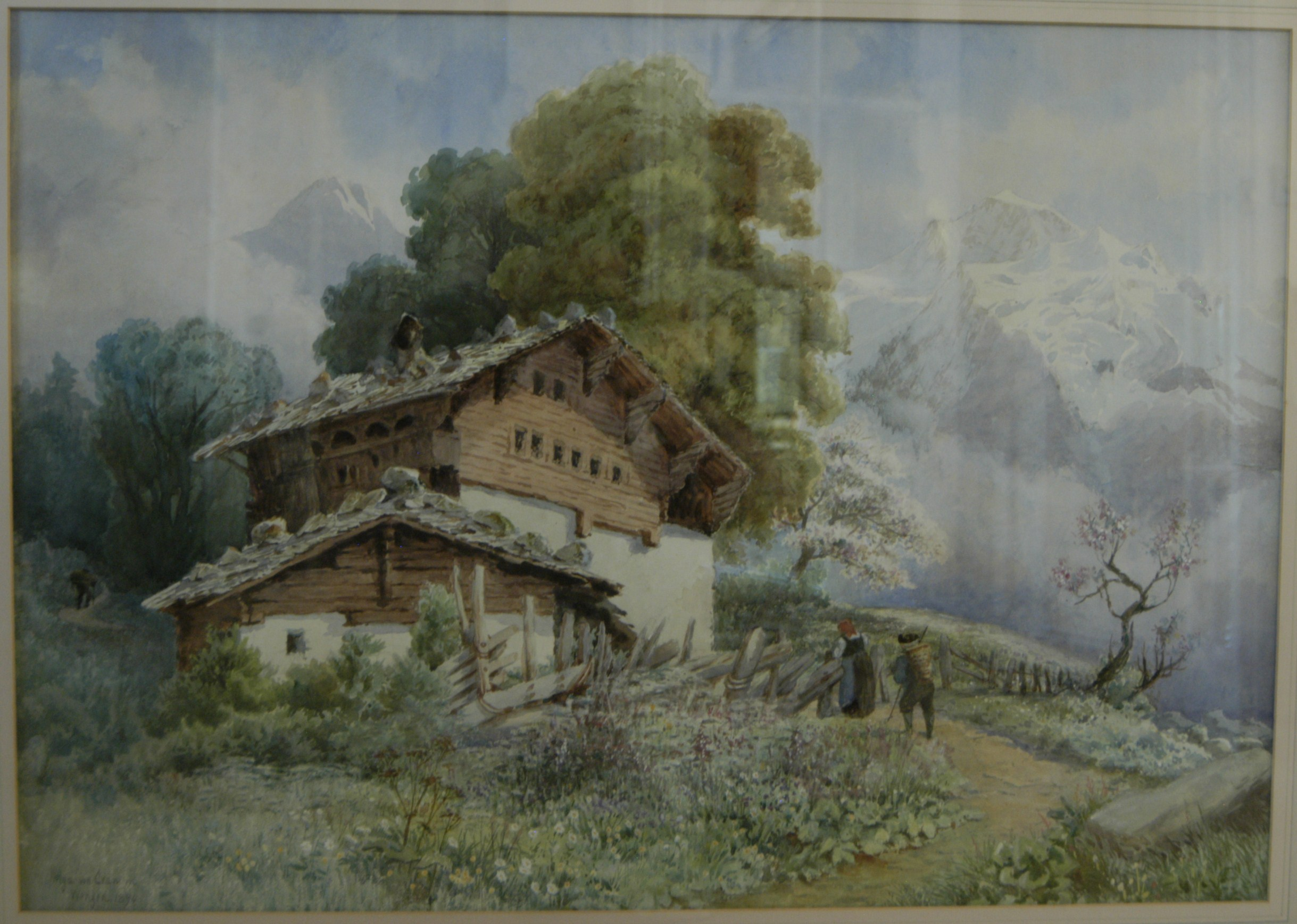 photo by me (Rodolph (talk) 00:59, 2 September 2013 (UTC)R. de Salis) of a detail of a watercolour of a Wengen chalet dated 1884 by Helga von Cramm (1840-circa 1901). Other information Helga von Cramm was the eldest sister of Baron Aschwin of Sierstorpff-Cramm (1846-1909).